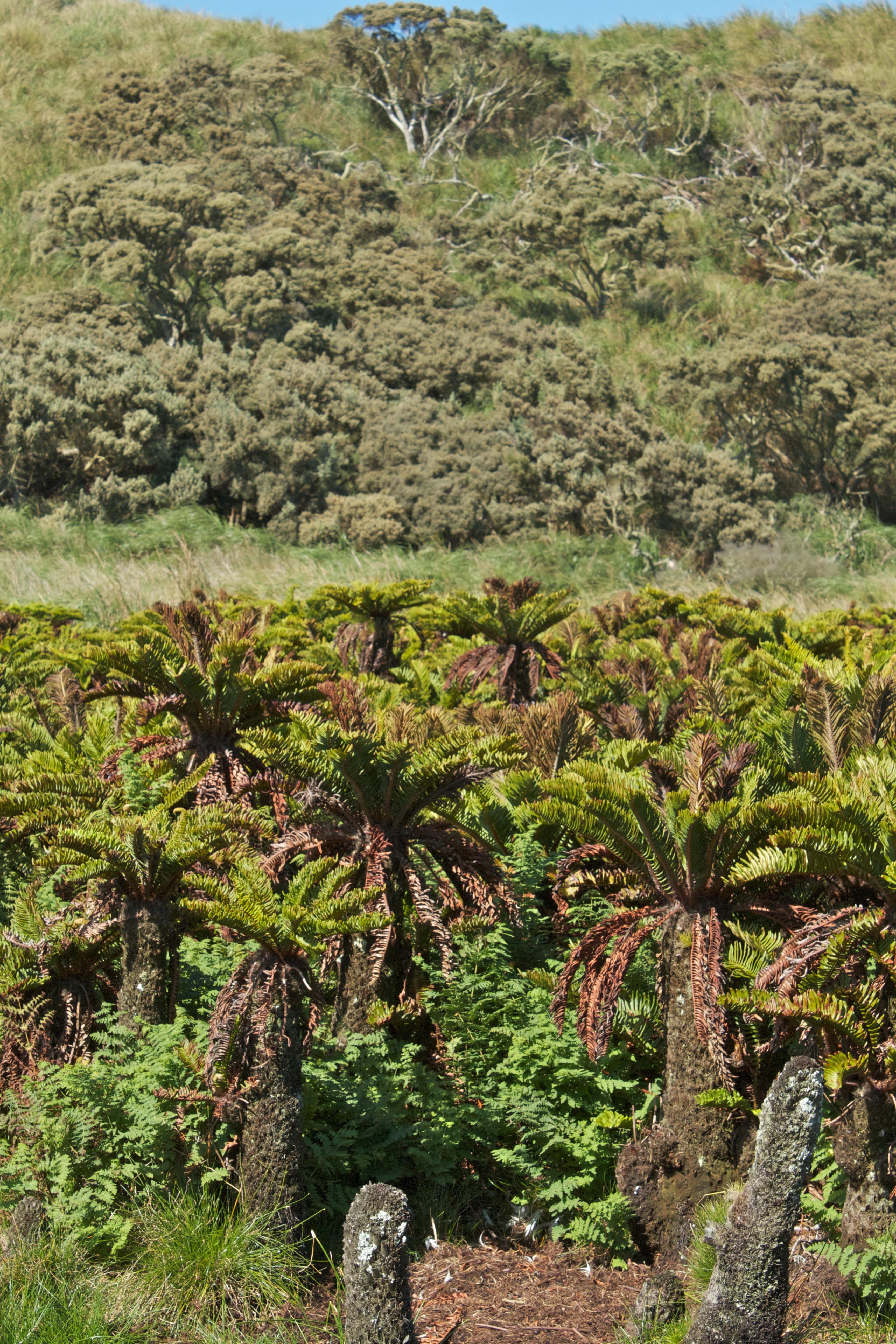 Fernbush plant communities dominated by the endemic tree-fern Blechnum palmiforme